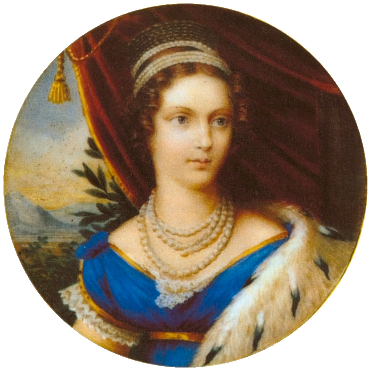 Princess Charlotte Auguste of Bavaria, 1792-1873, from 1808 to 1814 first wife of Crown Prince William I of Württemberg (divorced). From 1816 Empress of Austria, as fourth wife of Emperor Franz I of Austria.